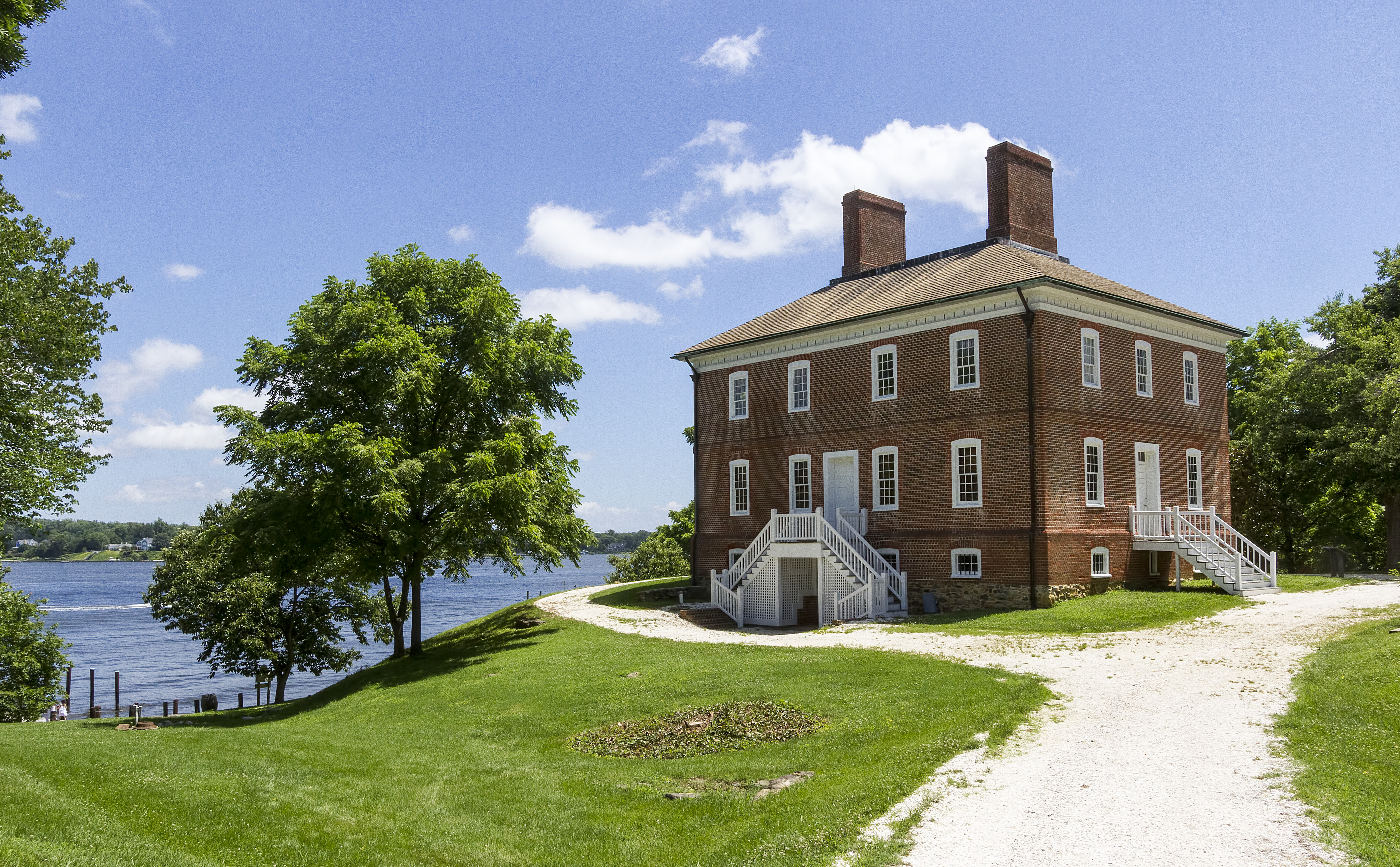 The rear of the William Brown House/London Town Publik House, South River, Maryland, USA